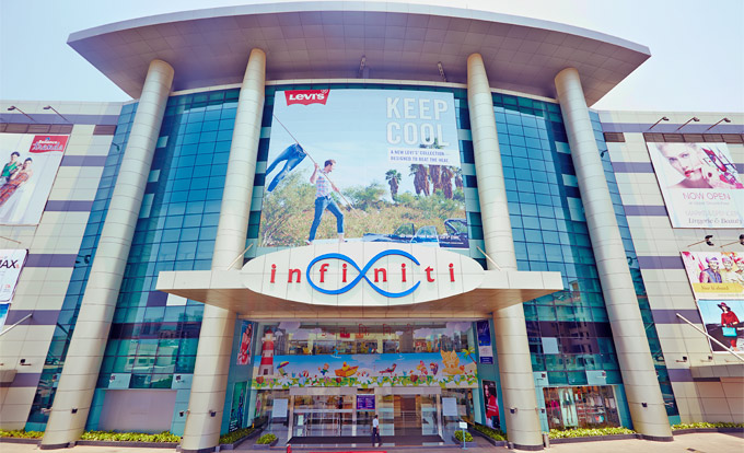 Infiniti Mall - Malad